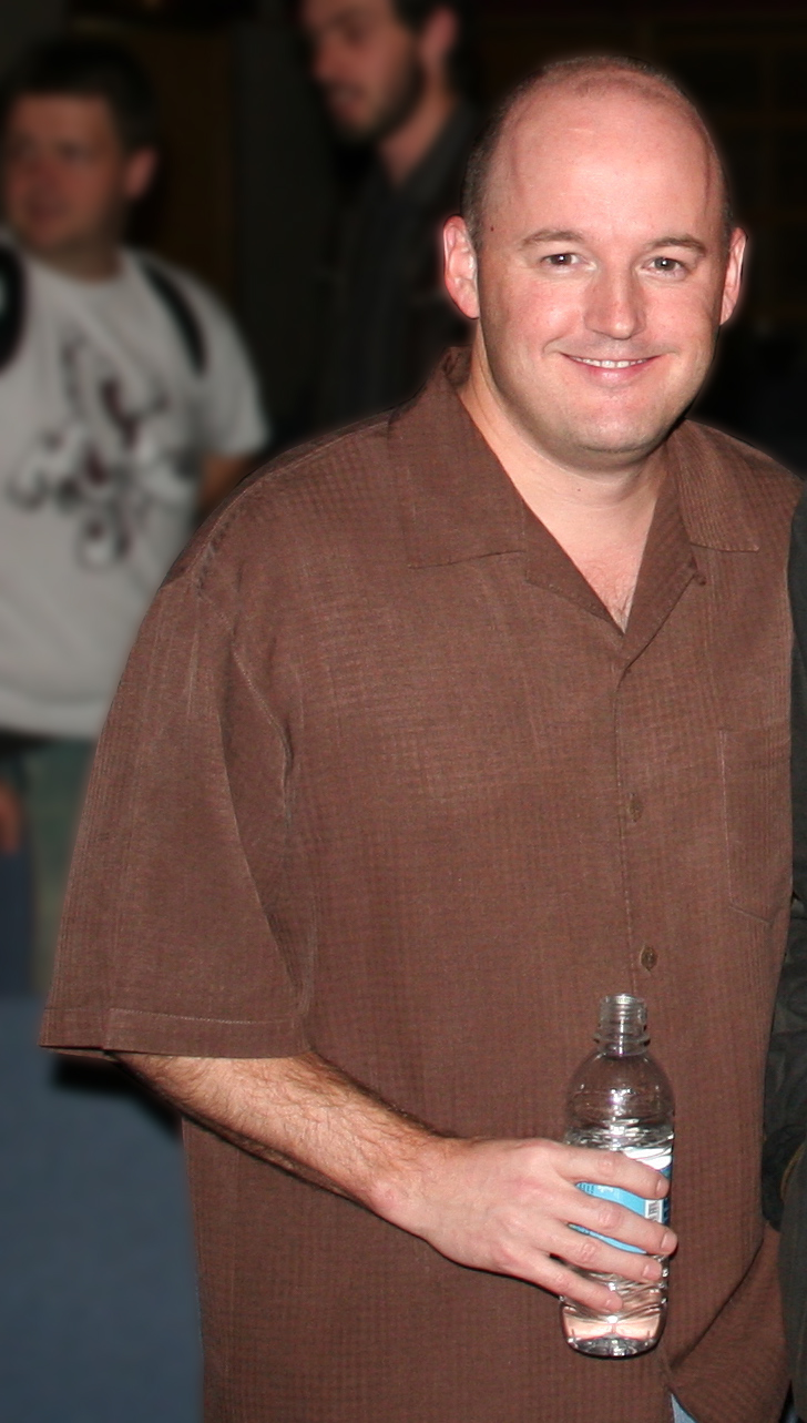 Depicted person: Tim Willits – Videogame designer